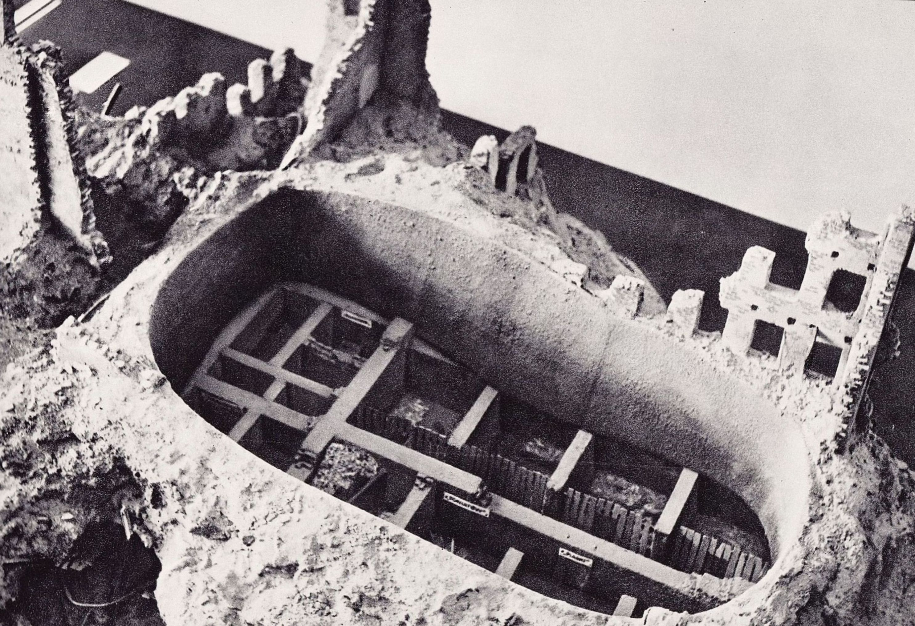 Post-war reconstruction of the Anielewicz Bunker at 18 Miła Street. It was a part of an exhibition at the Jewish Historical Institute in Warsaw, see also pictures [in:] B. Mark, Powstanie w getcie warszawskim, Żydowski Instytut Historyczny, Warszawa 1953 p. 273 or M. Fuks (edit.) Adama Czernikowa dziennik getta warszawskiego 6 IX 1939−23 VIII 1942, Państwowe Wydawnictwo Naukowe, Warszawa 1983, p. 321.